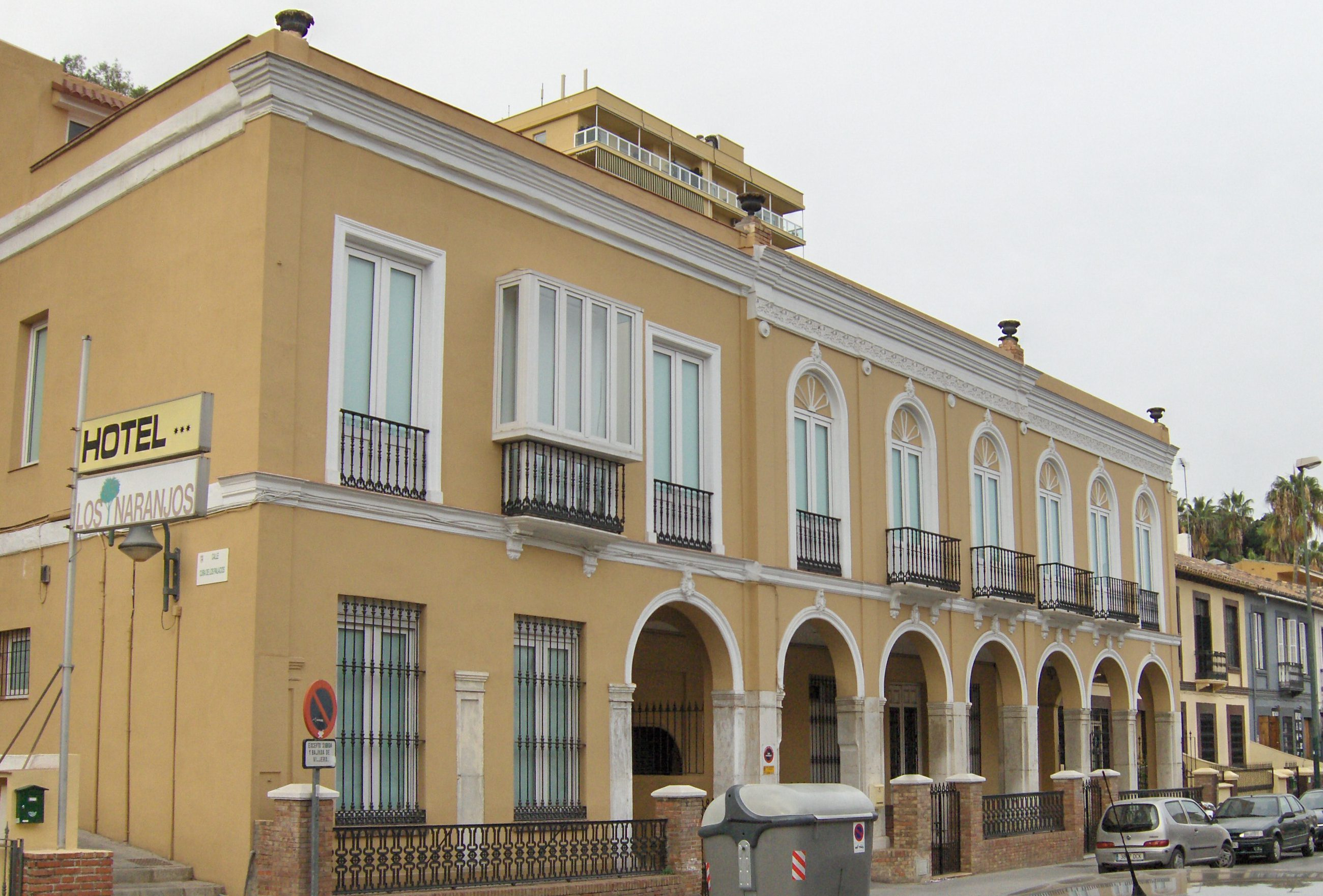 Building in Pseo de Sancha, Málaga.